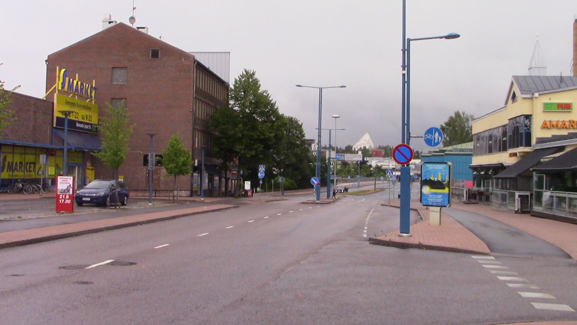 Finnish regional road 290 at Uudenmaankatu street in Hyvinkää, Finland.